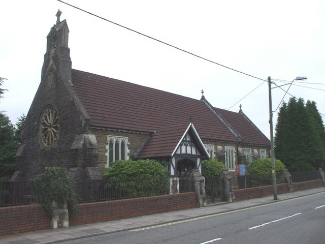 Church of St Mary the Virgin, Troedrhiwgarth, Maesteg